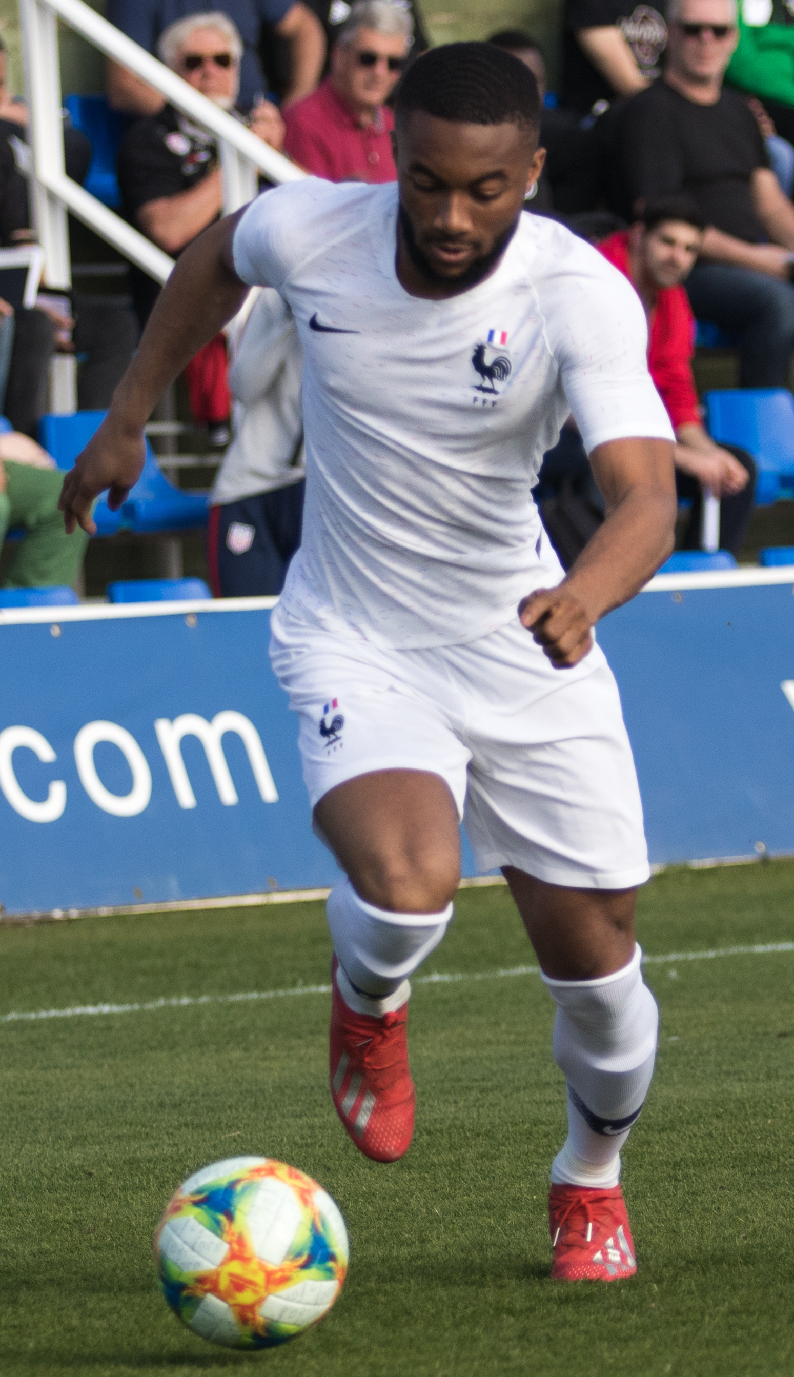 USA U20 v France U20, 22 March 2019